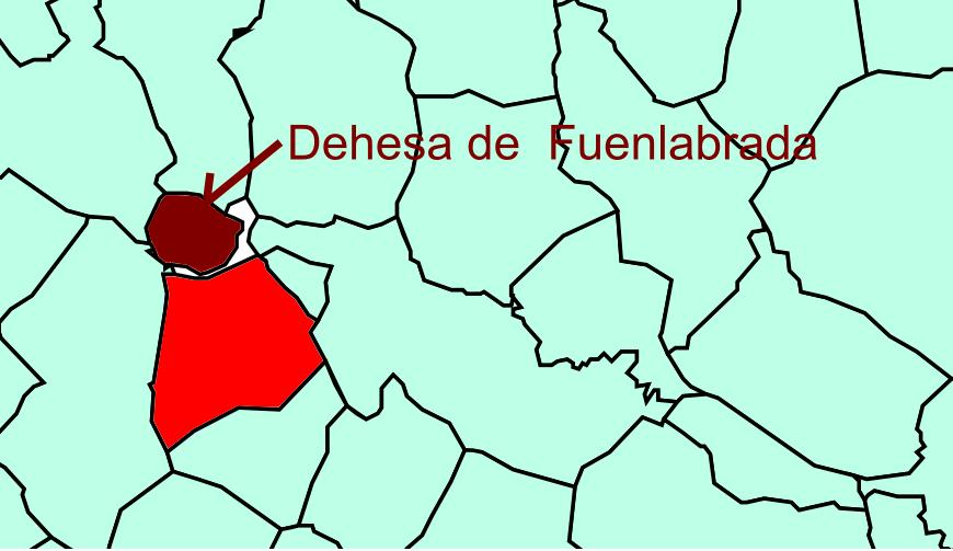 Municipalities of Cuenca (Spain). 2003 Author :Nachosan